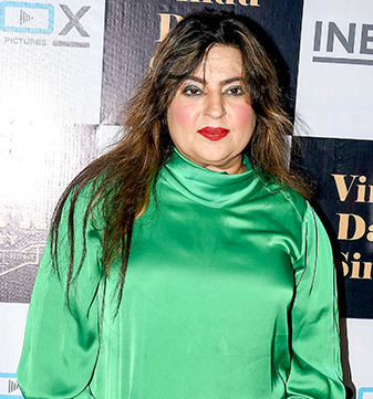 Celebs grace Vindu Dara Singh’s birthday bash